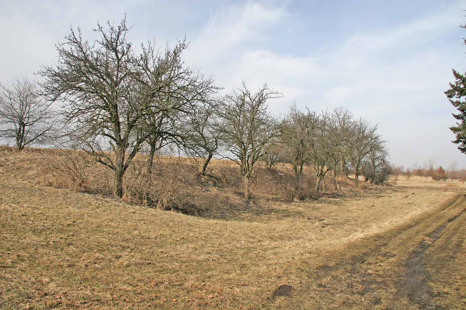 Remains of moats of a 10th century fortified settlement in Libice nad Cidlinou, Czech Republic